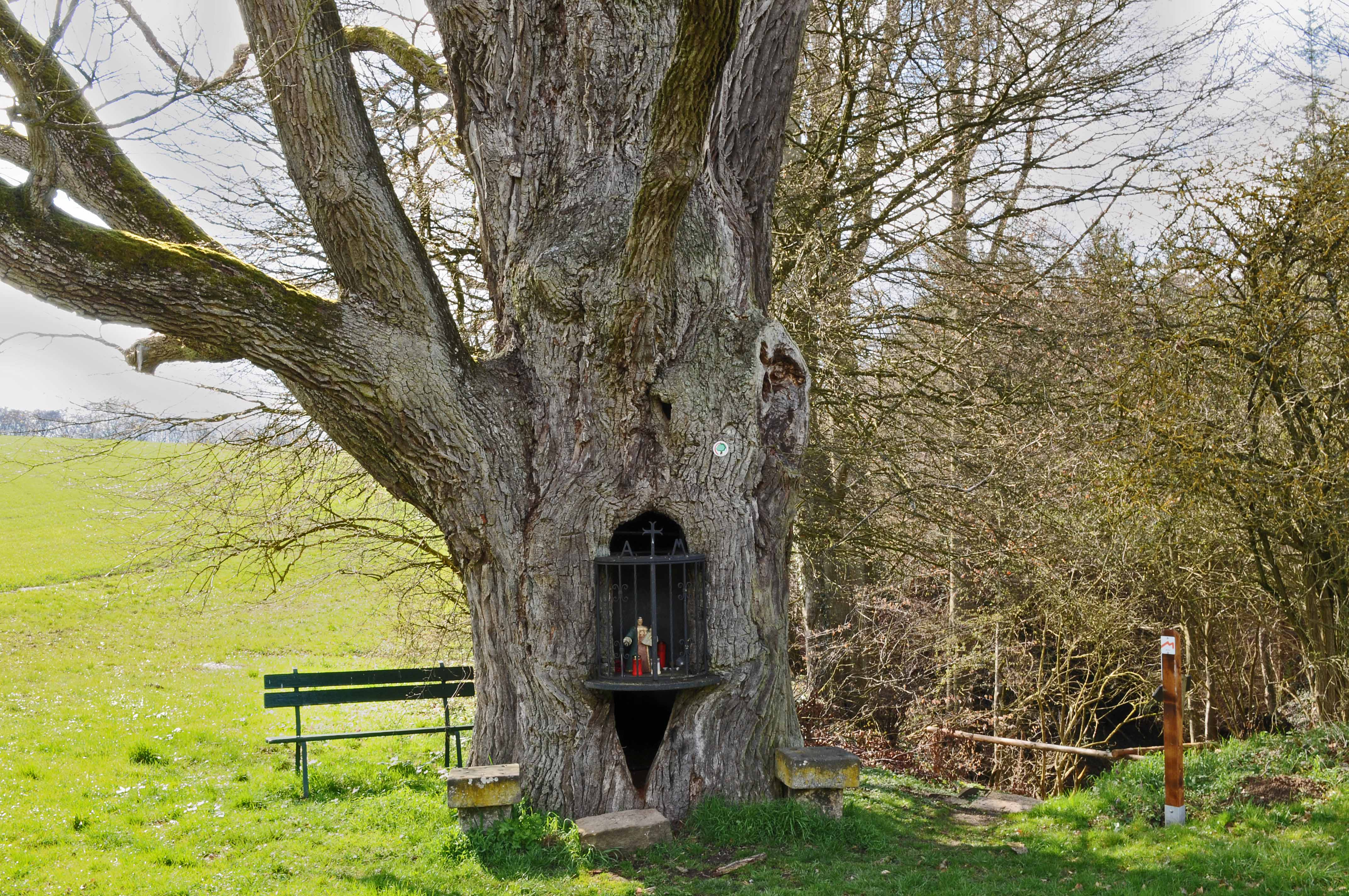 Ca 500 years old oak in Hersberg (Bech, Luxembourg) with a statue of the Madonna.